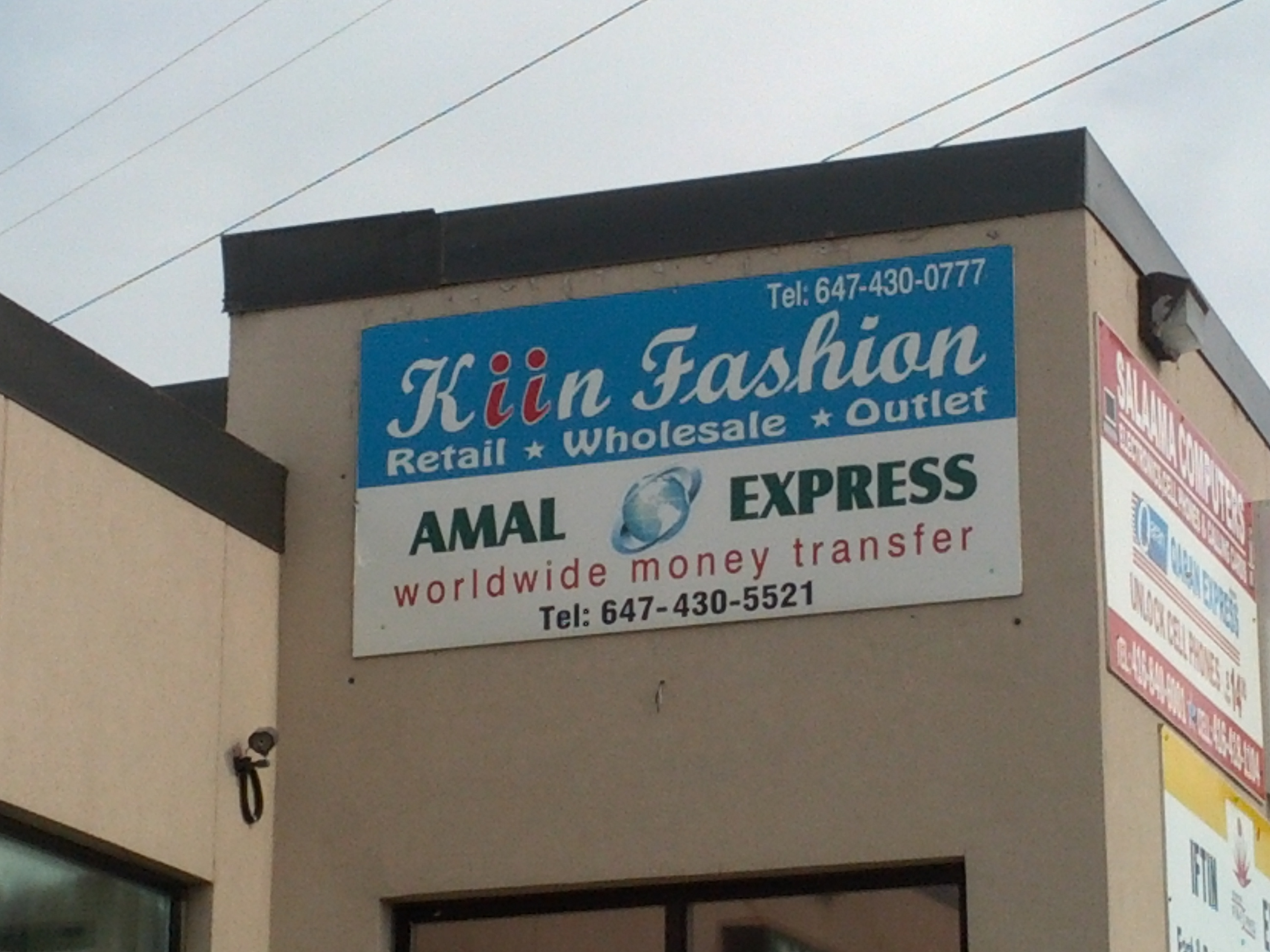 A Kiin Fashion retail/wholesale outlet and Amal Express money transfer office at a strip mall in Toronto, two of many Somali-owned Canadian businesses.